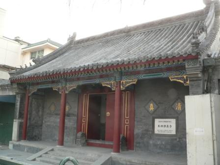 Dongsi Mosque